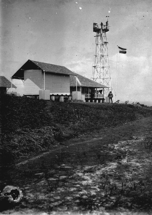 Photo. The lighthouse of Ambon (Amboyna) in the South Maluku Islands (also known as the Moluccas, Moluccan Islands, the Spice Islands)